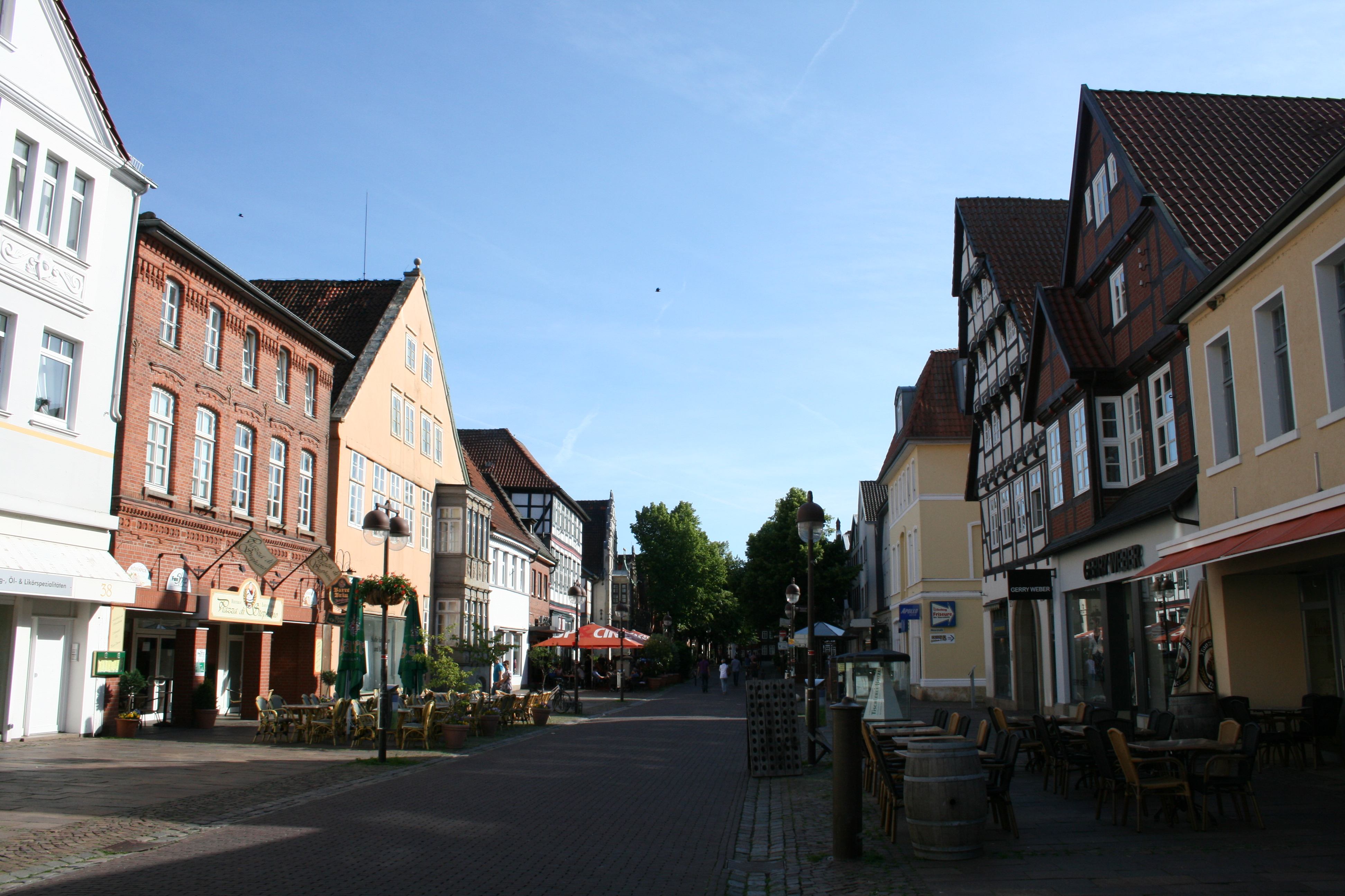 Nienburg, Lange Straße